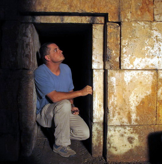 Boaz Zissu at Herod's Family Tomb, Jerusalem, Summer 2009